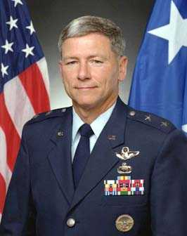 Photo of USAF Major General Michael Kostelnick for use on his USAF biography web page at